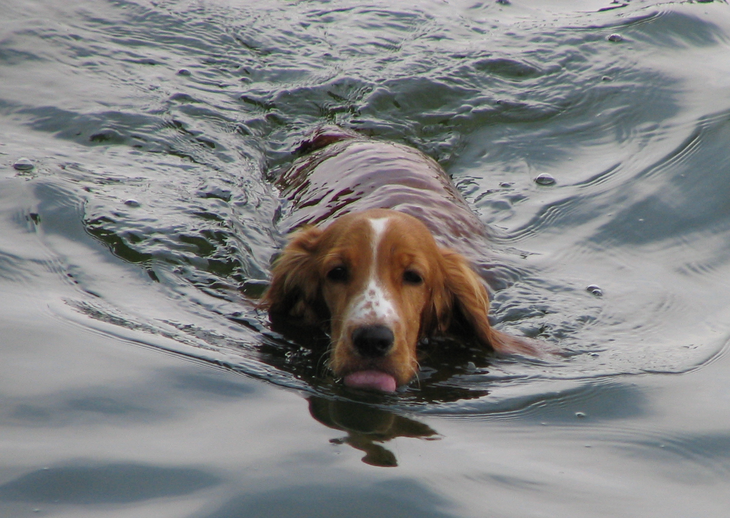 A dog swimming